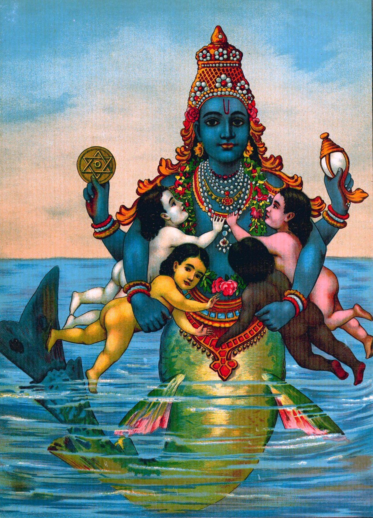 Matsya Raja Ravi Varma Press